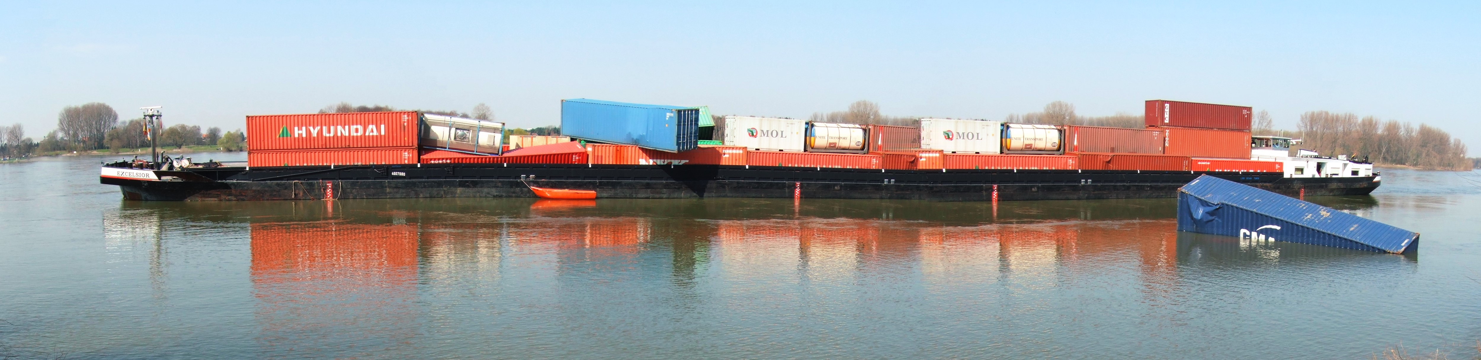 damaged container carrier "Excelsior" in the Rhein river near Köln-Zündorf, Germany